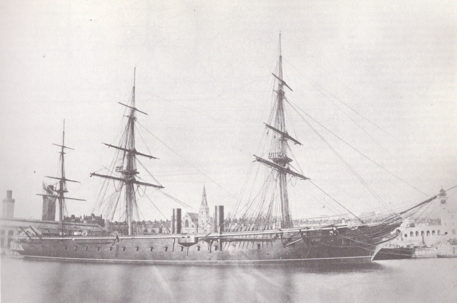 British broadside ironclad HMS Warrior after the reduction of her bowsprit but before she was rearmed in 1867